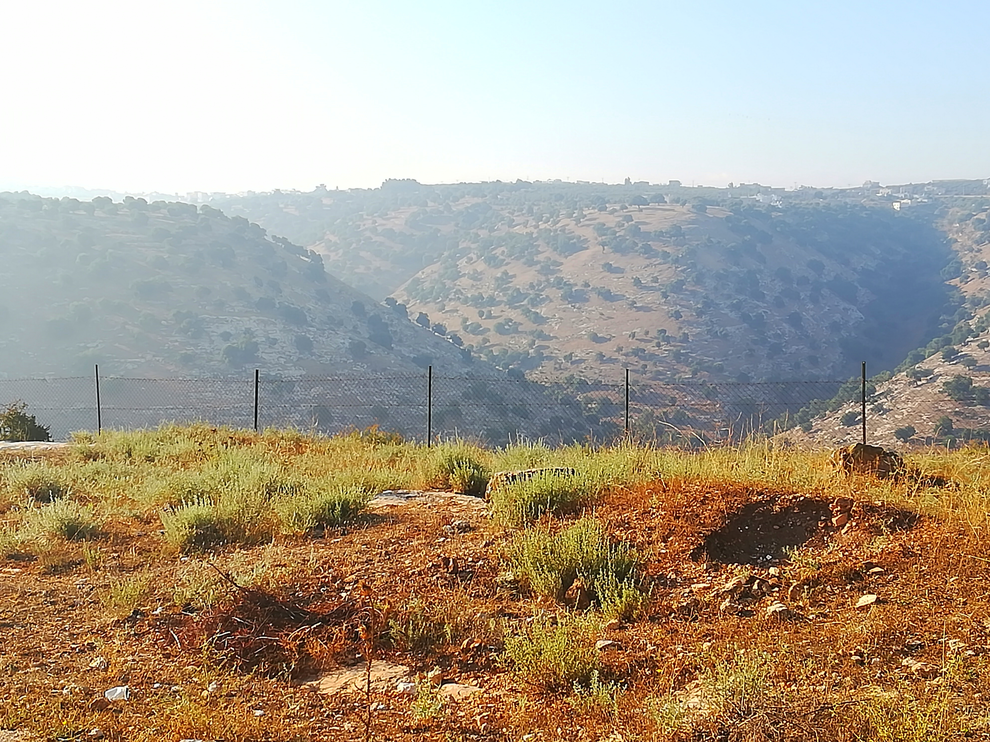 Malka village in northern Jordan